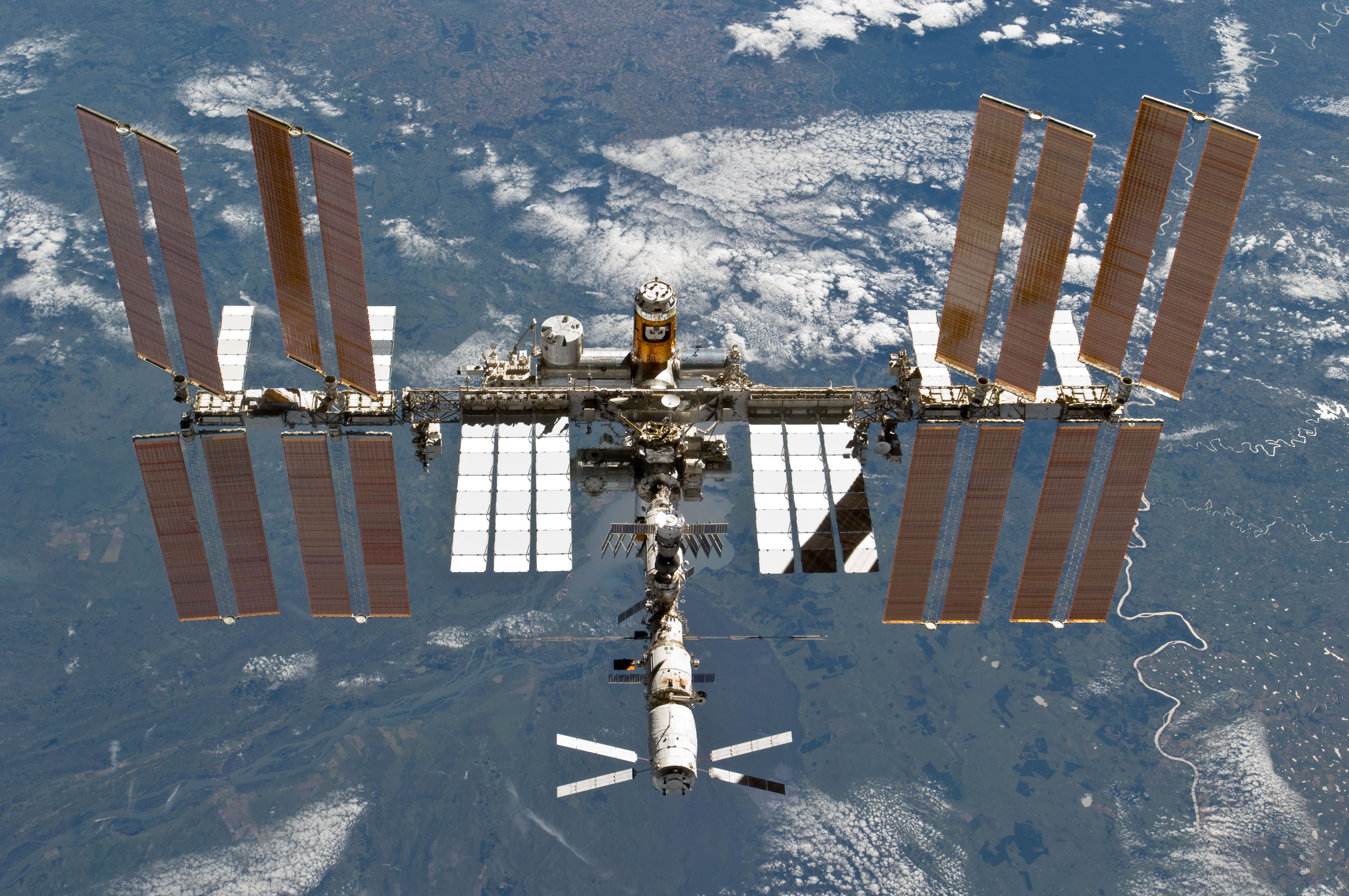 The International Space Station is featured in this image photographed by an STS-133 crew member on space shuttle Discovery after the station and shuttle began their post-undocking relative separation. Undocking of the two spacecraft occurred at 7 a.m. (EST) on March 7, 2011. Discovery spent eight days, 16 hours, and 46 minutes attached to the orbiting laboratory.